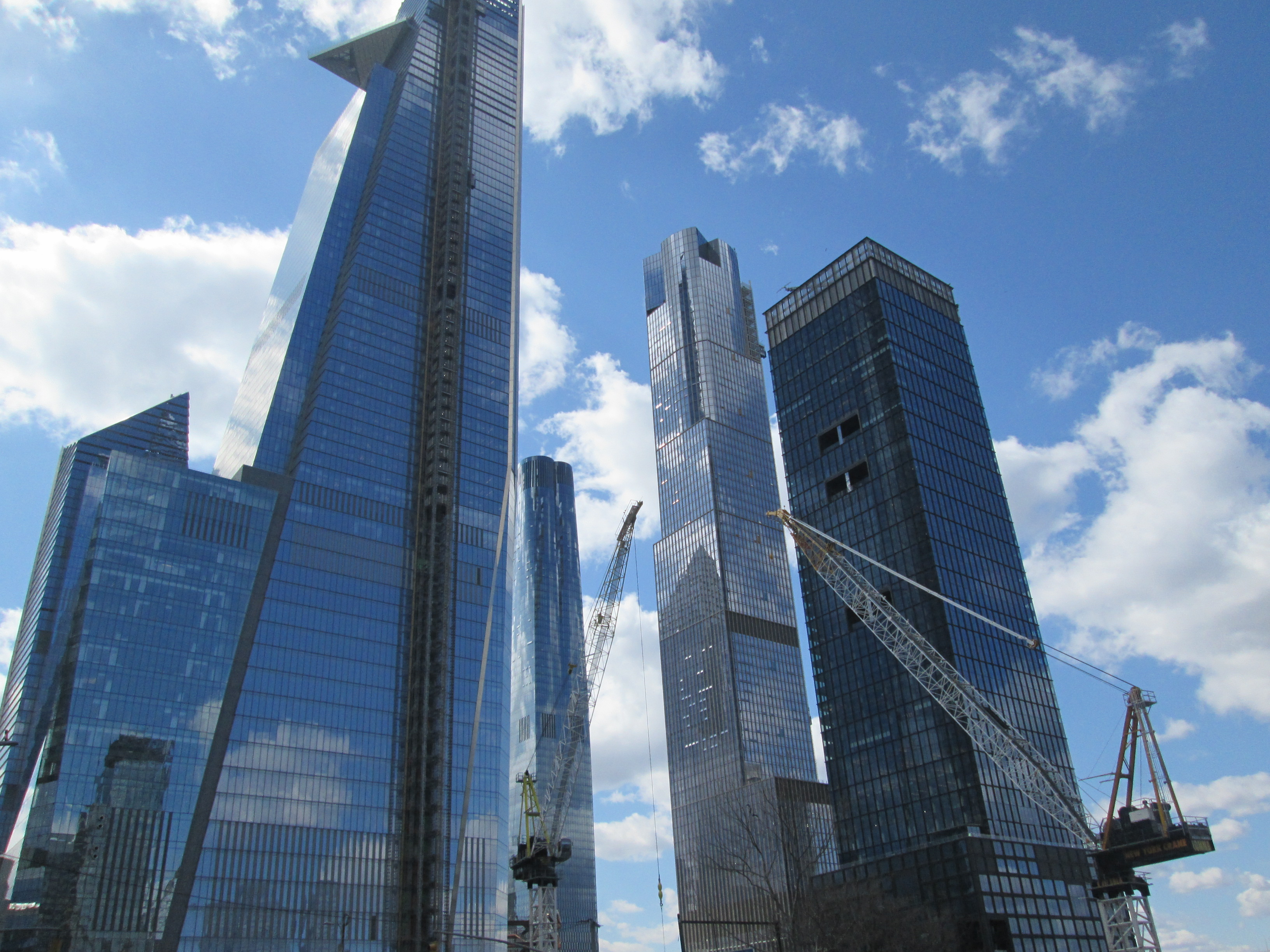 The Hudson Yards development in New York City in March 2019